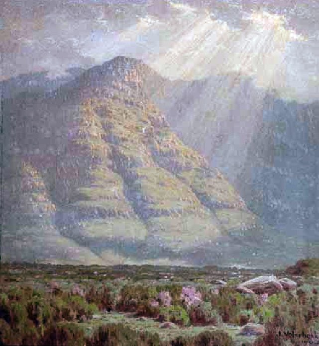 "A Hazy Morning in the Langeberg", 40 x 37,5cm